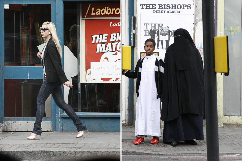 Women of London